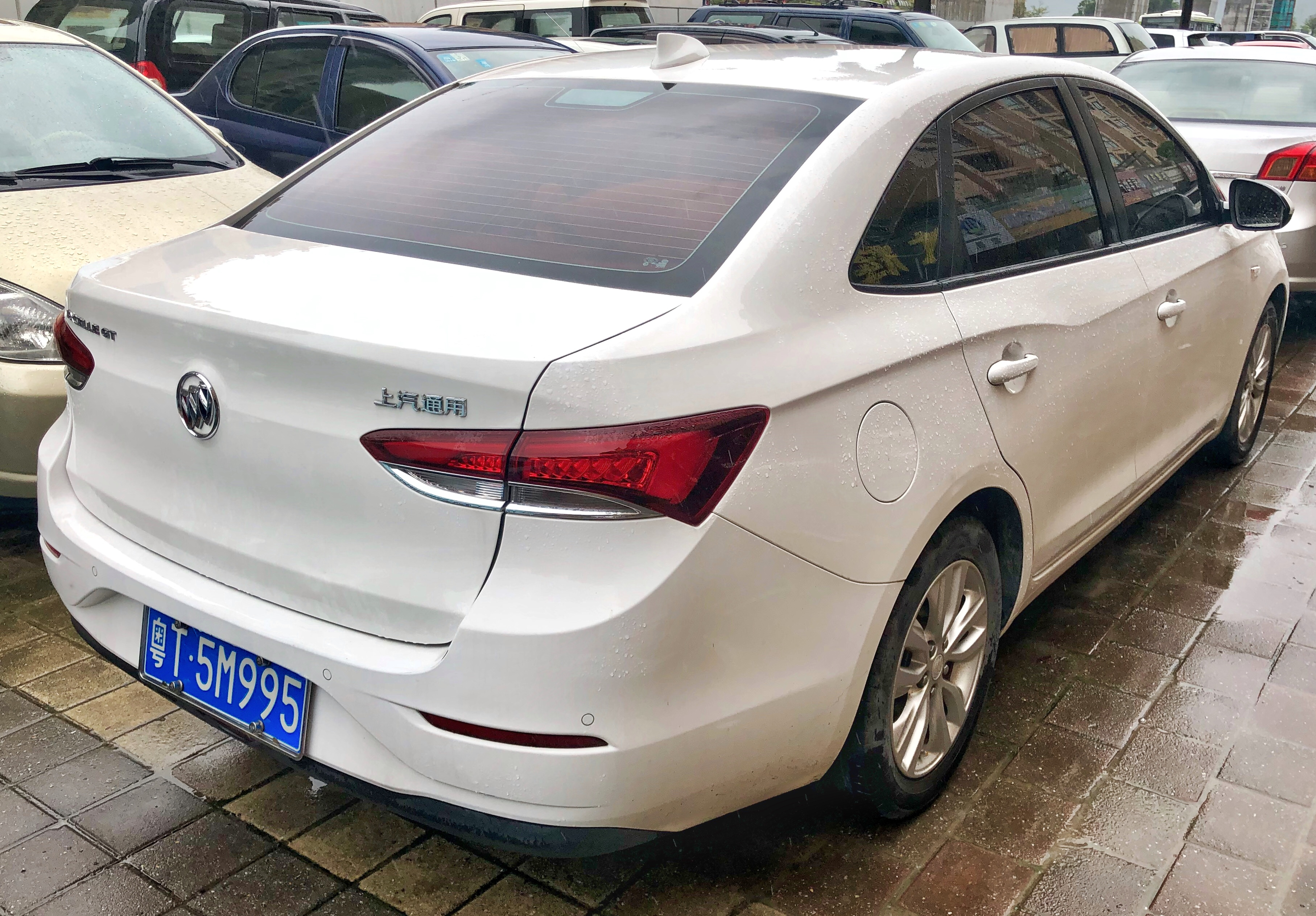 A 2018 Buick Excelle GT taken in Zhongshan, Guangdong province, China. 中文（中国大陆）: 一辆2018年的别克英朗，摄于中国广东省中山市。